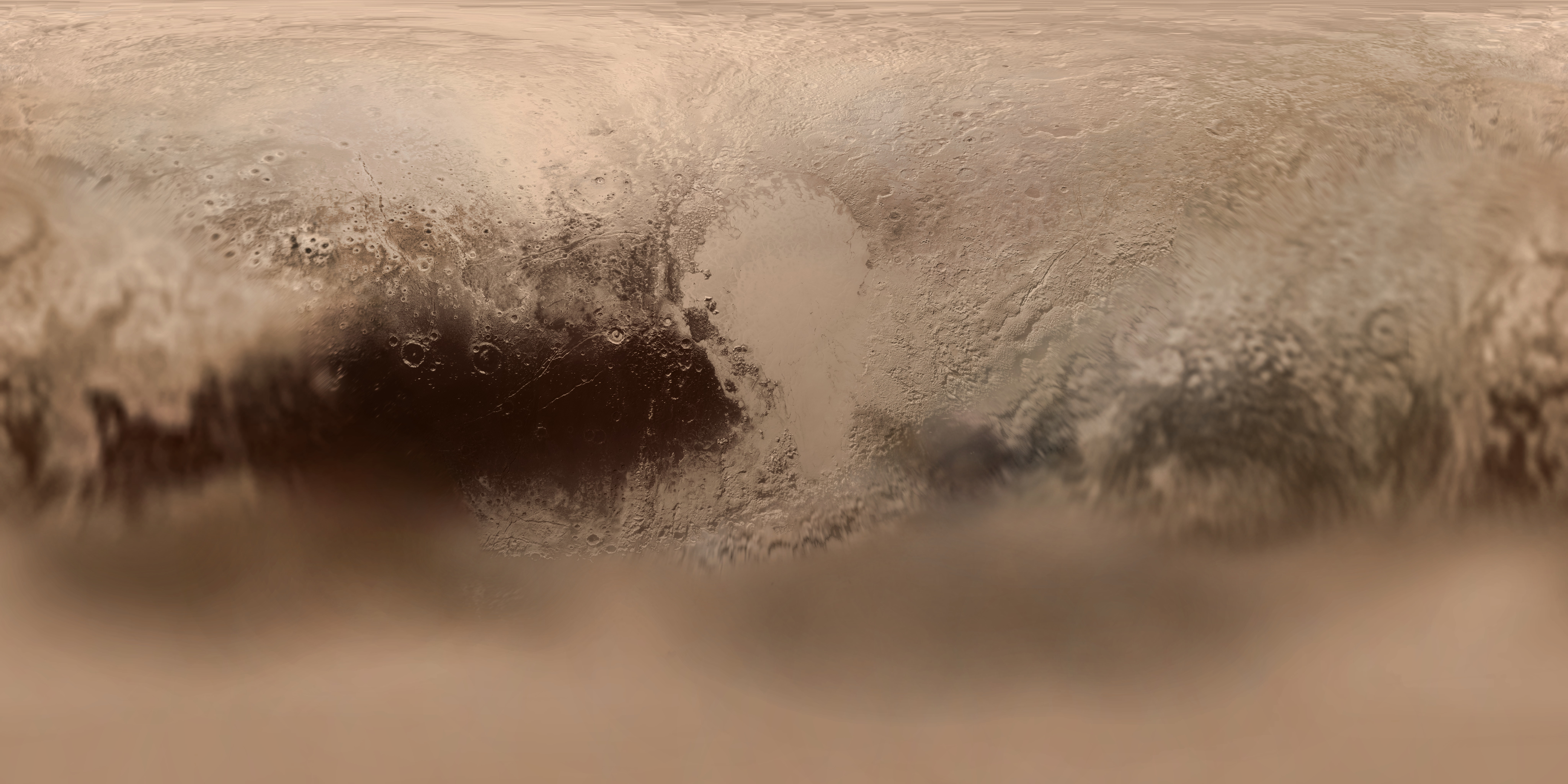 High-resolution color map of Pluto, including the latest images released on 25 September 2015.